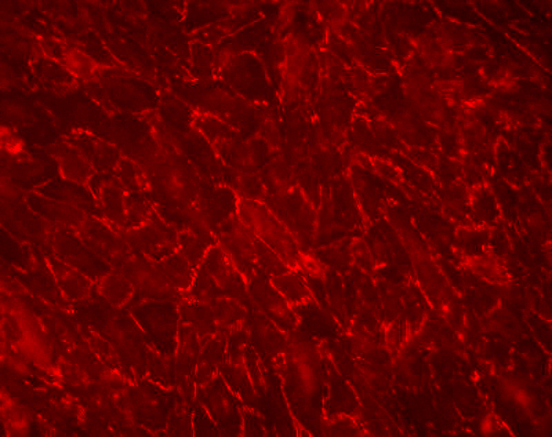 ZO1 in human endothelial cells